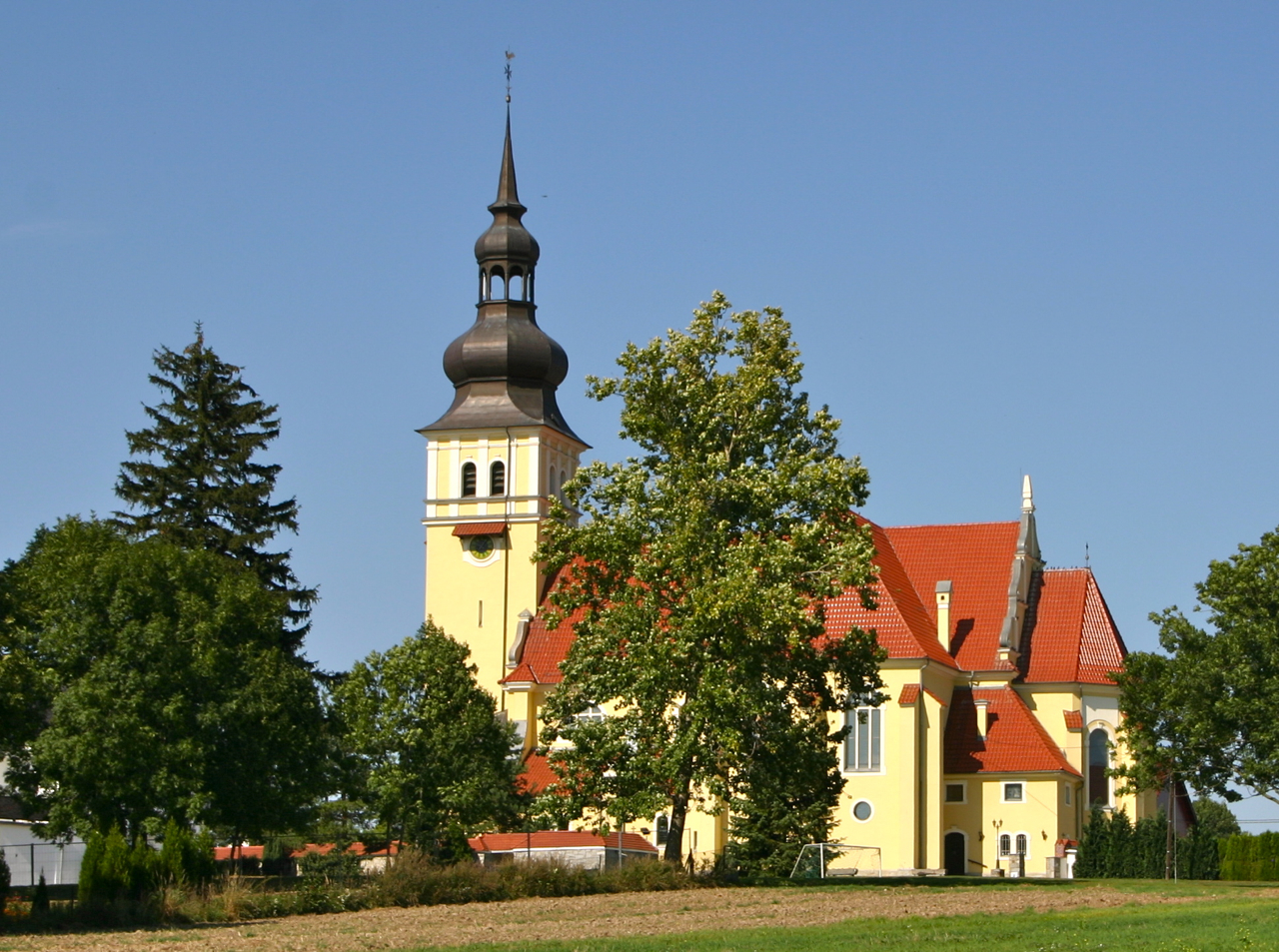 Saint John the Baptist church in Solec.